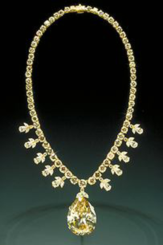 The Victoria-Transvaal Diamond, cut from a 240-carat rough stone found at the Premier Mine in Transvaal, South Africa, in 1951. The diamond, with a champagne-color, was originally cut to 75 carats, but then later recut to 67.89 carats for better proportions. Donated to the National Museum of Natural History in 1977 by Leonard and Victoria Wilkinson, the Victoria-Transvaal Diamond is a pear-shaped brilliant cut and has 116 facets. The yellow gold necklace was designed by Baumgold Brothers, Inc., and consists of 66 round brilliant cut diamonds, fringed with 10 drop motifs, each set with 2 marquise-cut diamonds, a pear-shaped diamond, and a small round brilliant cut diamond. Total weight of the 106 diamonds in the necklace is approximately 45 carats. The Victoria-Transvaal diamond was worn in the 1952 movie, Tarzan's Savage Fury. Full description